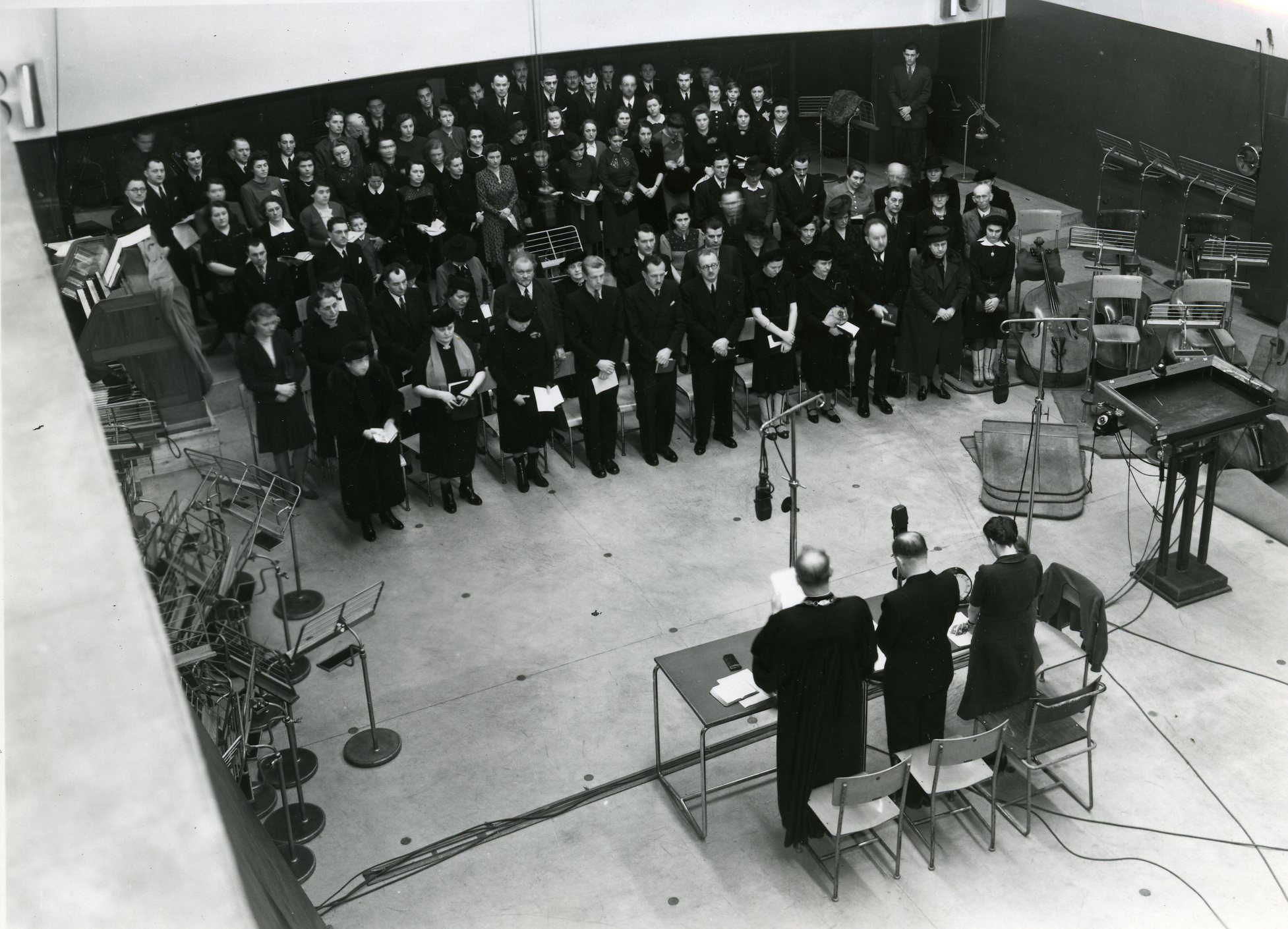 Radio services by Josef Křenek, Czech Radio Prague, Sunday 23 February 1941